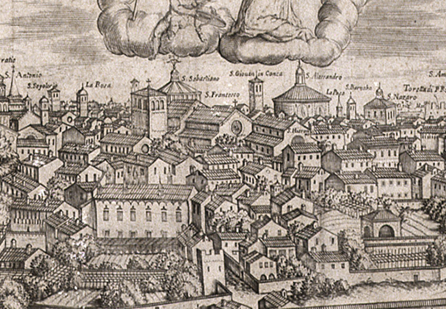 Map of a district of Milan including the church San Francesco Grande - 1640